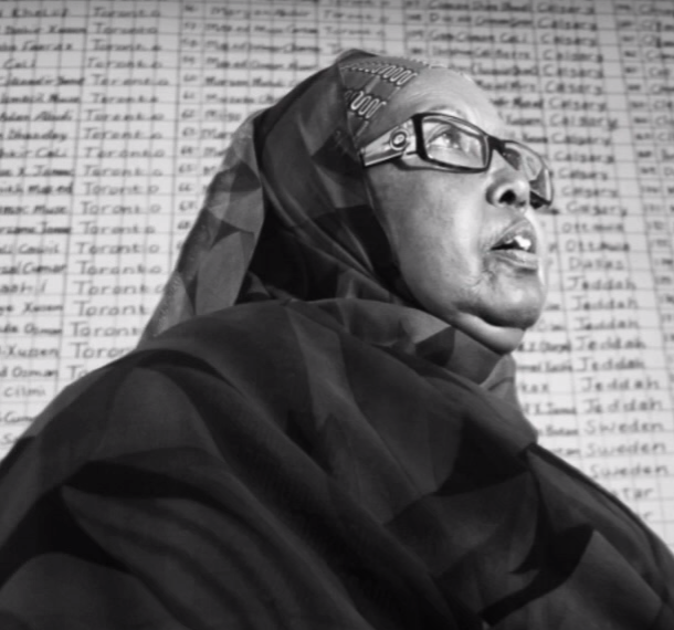 Hawa Aden Mohamed (Somali: Xawa Aden Maxamed, Arabic: حواء عدن محمد) is a Somali social activist. She won the Nansen award from the UNHCR